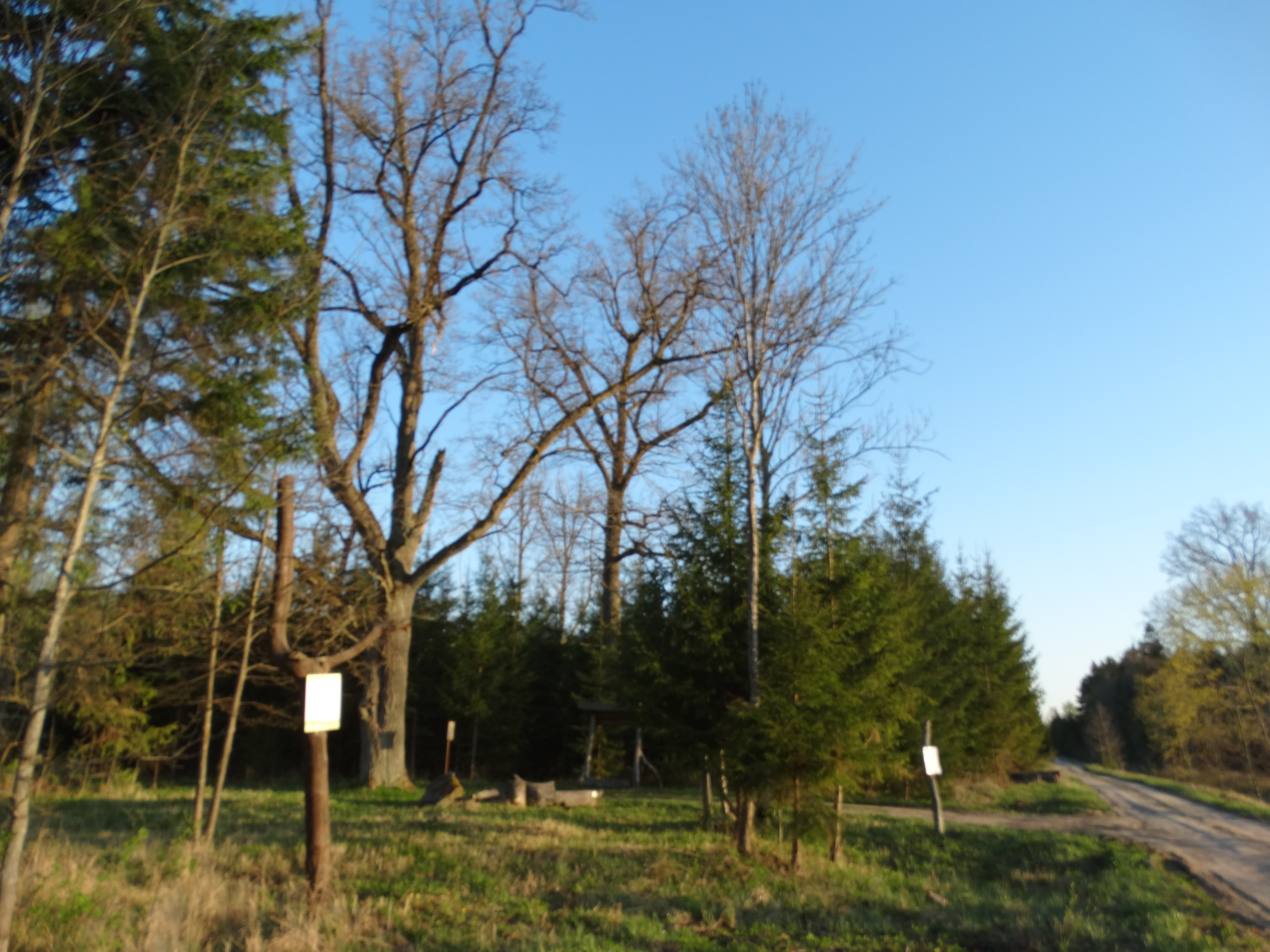 Radviloniai Forest Oak, Radviliškis District, Lithuania